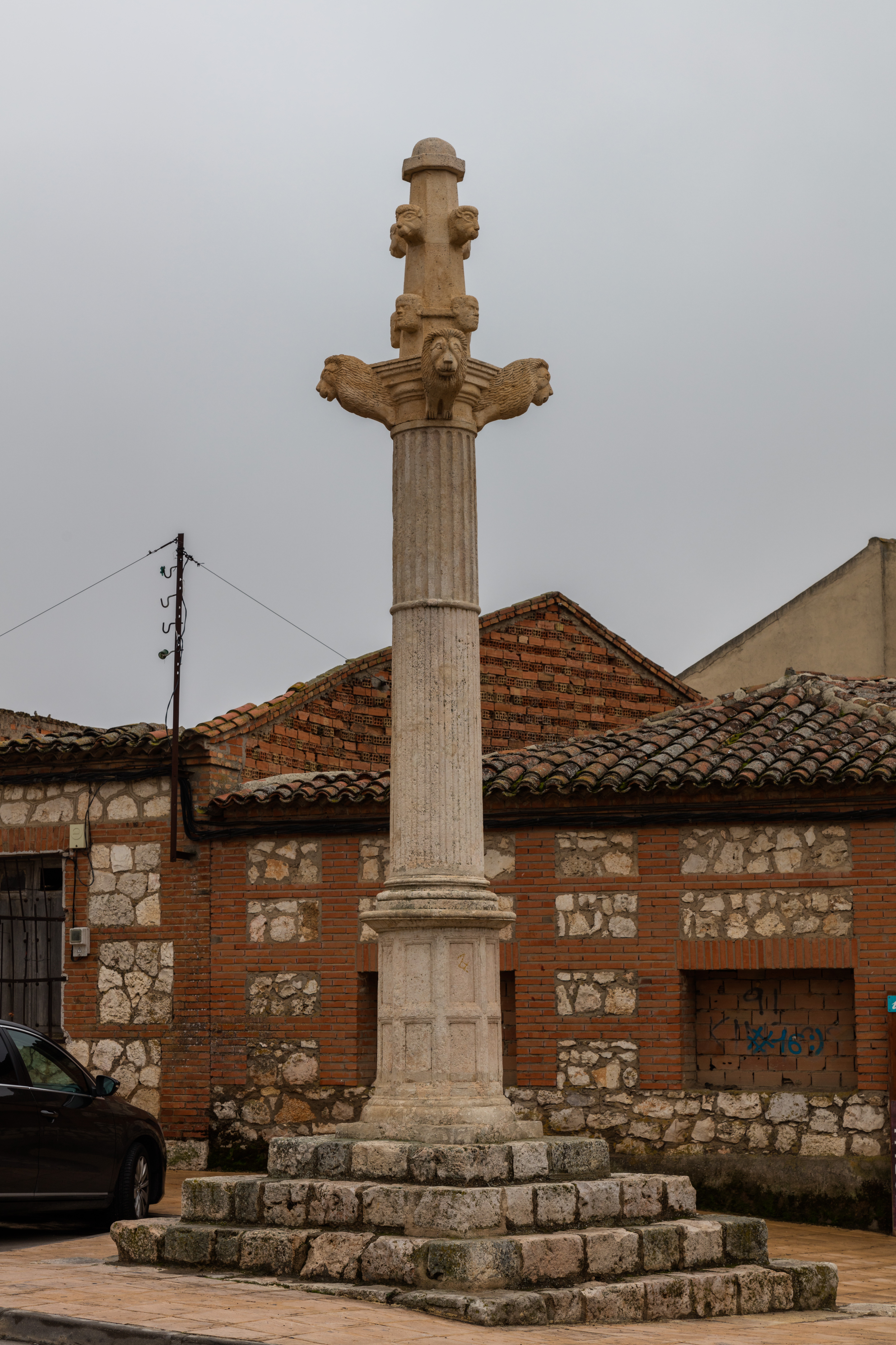 Pillory, Torija, Guadalajara, Spain